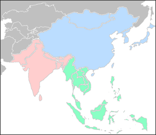 A flat map of Asia with country dividing lines Created in GIMP by Brian Davis Optimized Palette. Includes Central Asia in red.